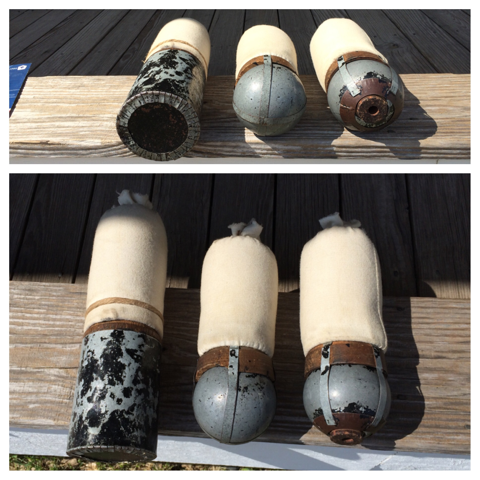 From left to right; Cartridge or canister shot, Cannon ball or round shot, Fused exploding shot or shrapnel (fuse not Shown). Each one with attached black powder bag The projectiles are strapped to a sabot and the powder bags are also attached (which country? which museum?).